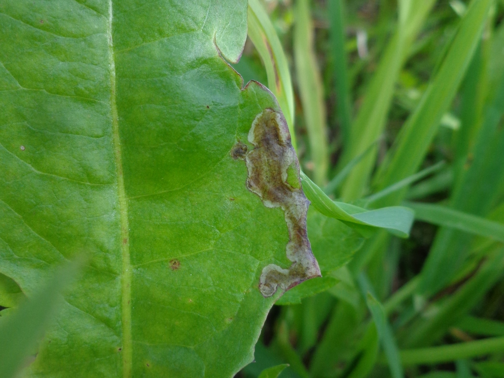 Liriomyza taraxaci. Found in Bērzi village near Bauska city, Latvia